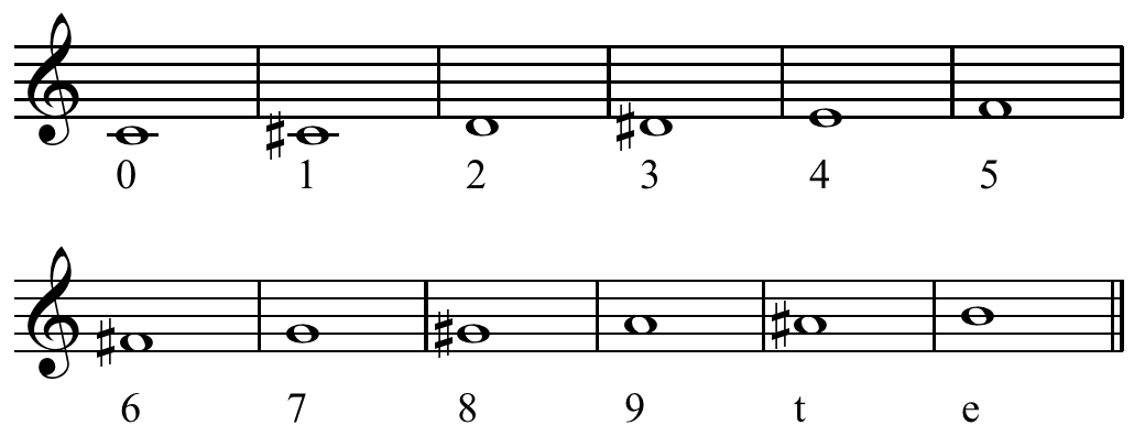 Integer notation.